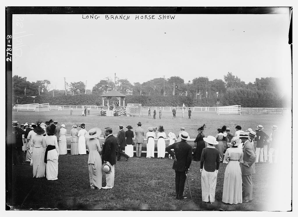 Long Branch Horse Show [no date recorded on caption card] 1 negative : glass ; 5 x 7 in. or smaller. Notes: Title from unverified data provided by the Bain News Service on the negatives or caption cards. Forms part of: George Grantham Bain Collection (Library of Congress). Format: Glass negatives. Repository: Library of Congress, Prints and Photographs Division, Washington, D.C. 20540 USA, General information about the Bain Collection is available at Persistent URL:Call Number: LC-B2- 2781-8 This photo has notes. Move your mouse over the photo to see them.